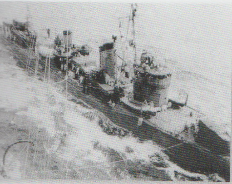 The Imperial Japanese Navy destroyer Shiranui while preparing for an underway refueling operations. Perhaps this photo was taken during the Japanese raid in the Indian Ocean on April 1942.